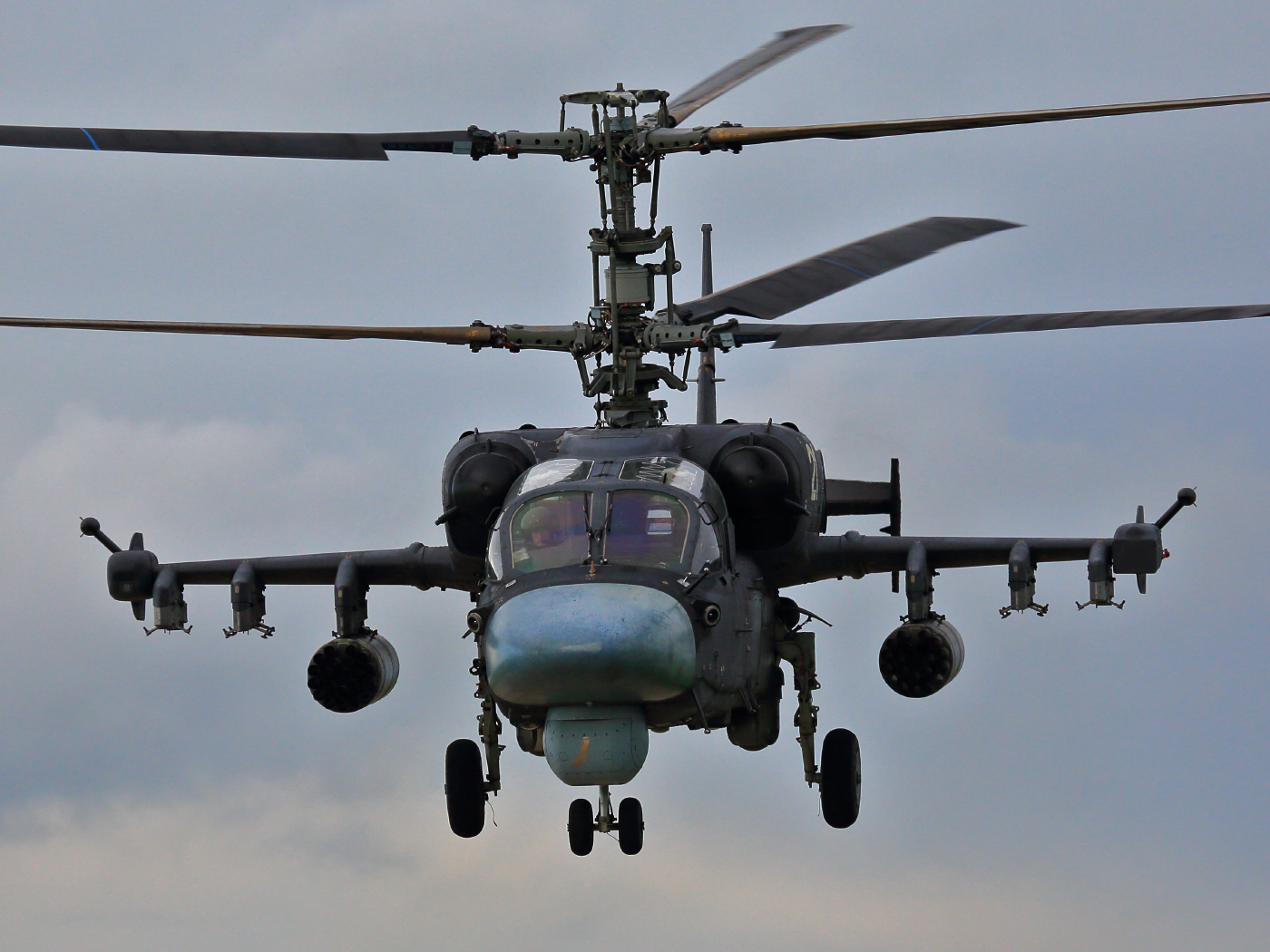 Front view of Kamov Ka-52 in flight